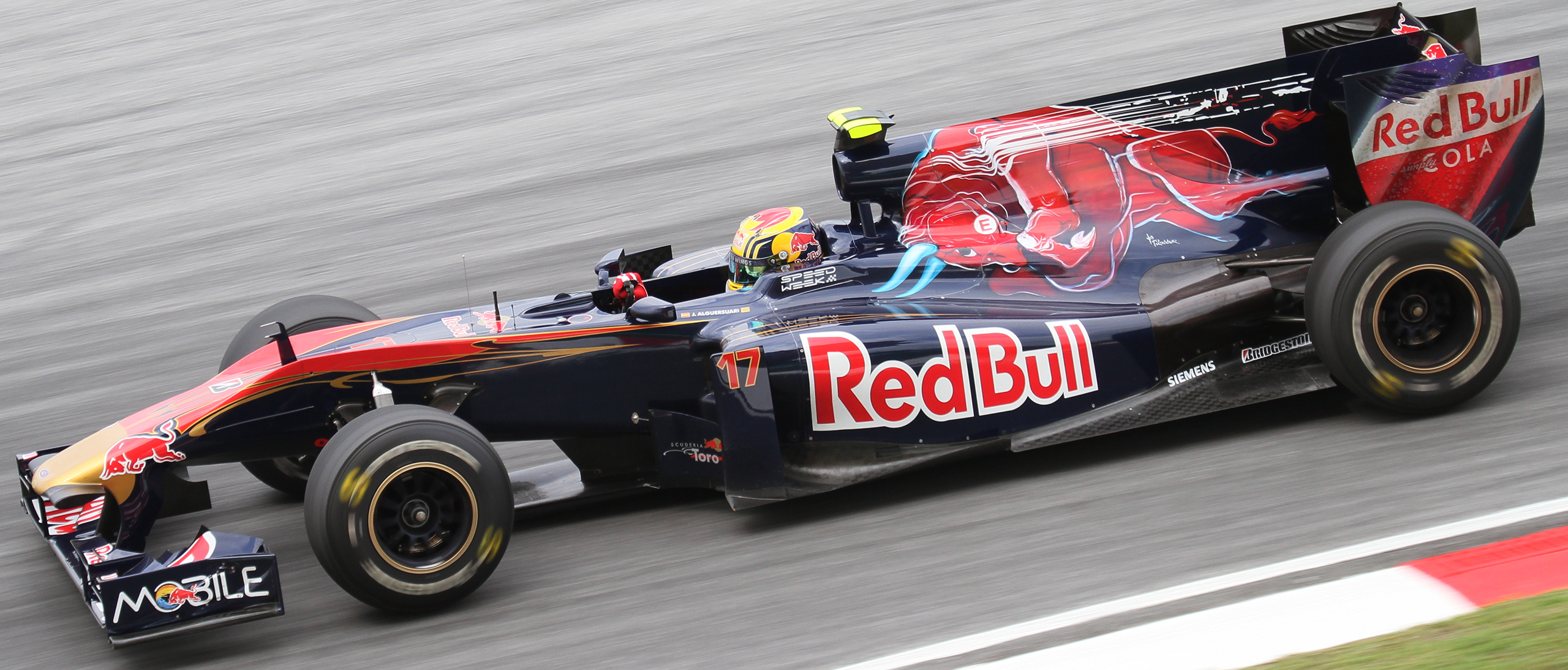 Formula One 2010 Rd.3 Malaysian GP: Jaime Alguersuari (Toro Rosso) during Friday 2nd Free Practice session.